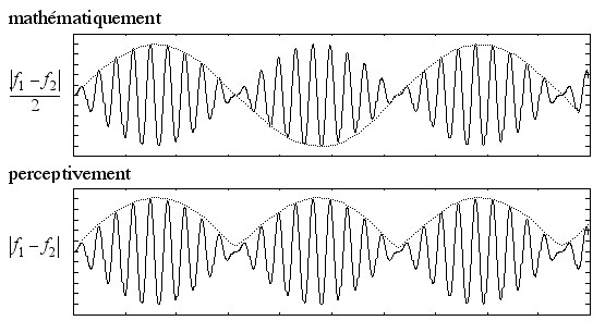 Perception of beats and ???. Mathematically and perceptually.